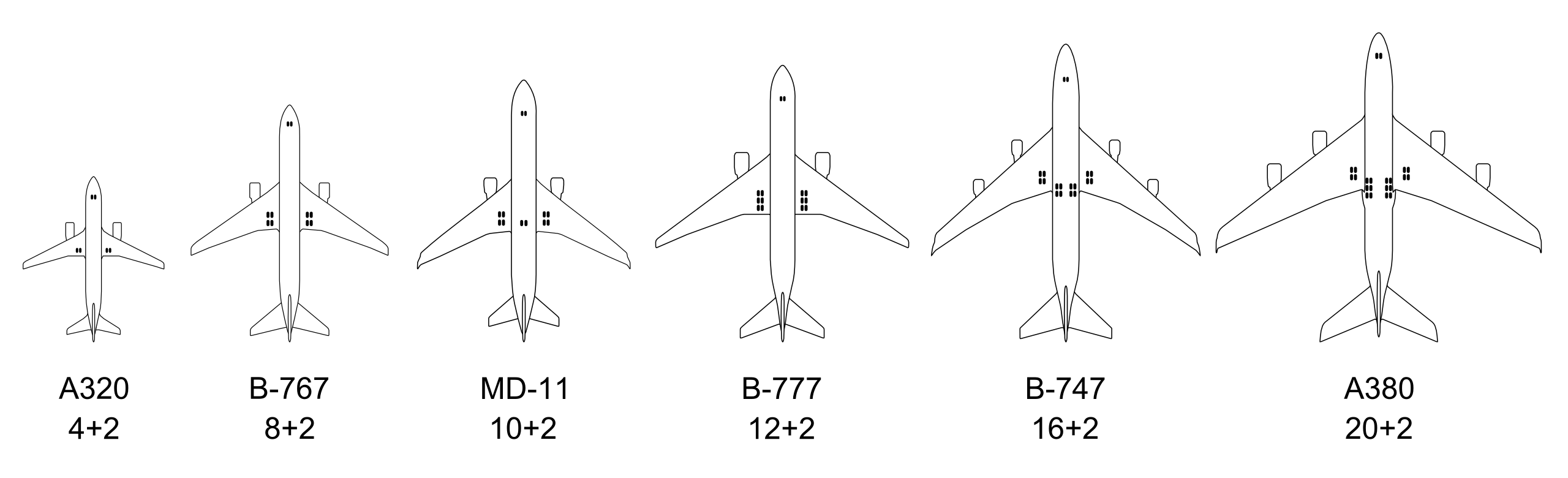 Jet airliner's tire arrangement (6 models)